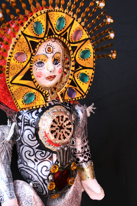 Cartonería doll named PITA LA HACEDORA DE SOLES by Guillermo Robles for the Miss Lupita project